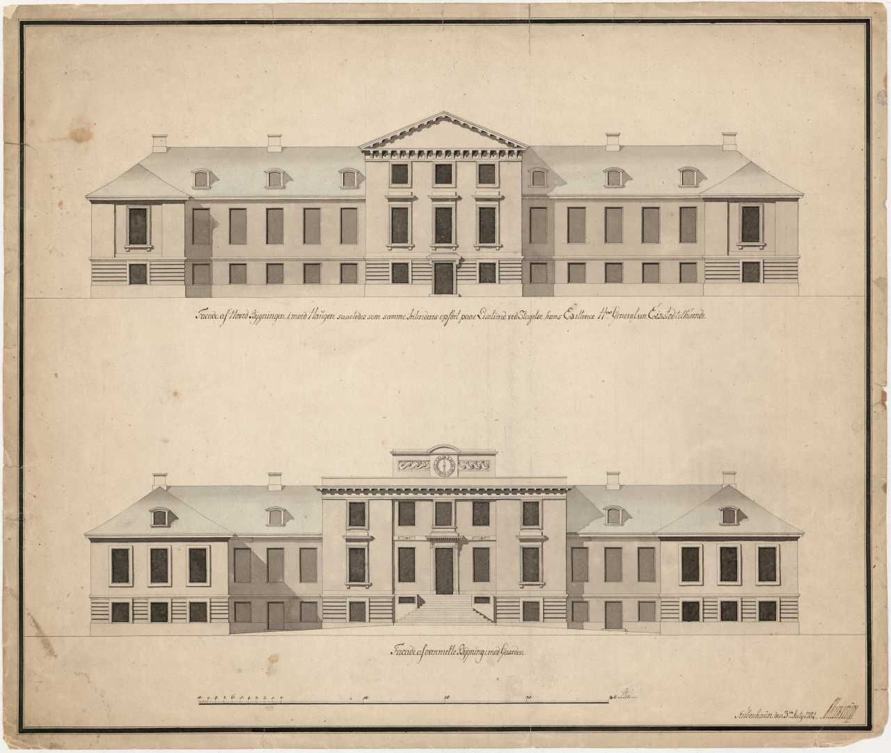 Store Frederikslund. 2 facades